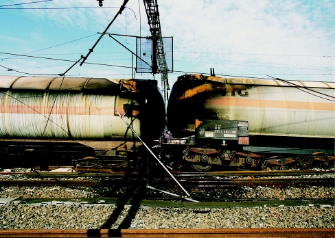 Fire area between car 1 and 2 in train 5481 after he fire had been put out. Picture from the official accident investigation report.